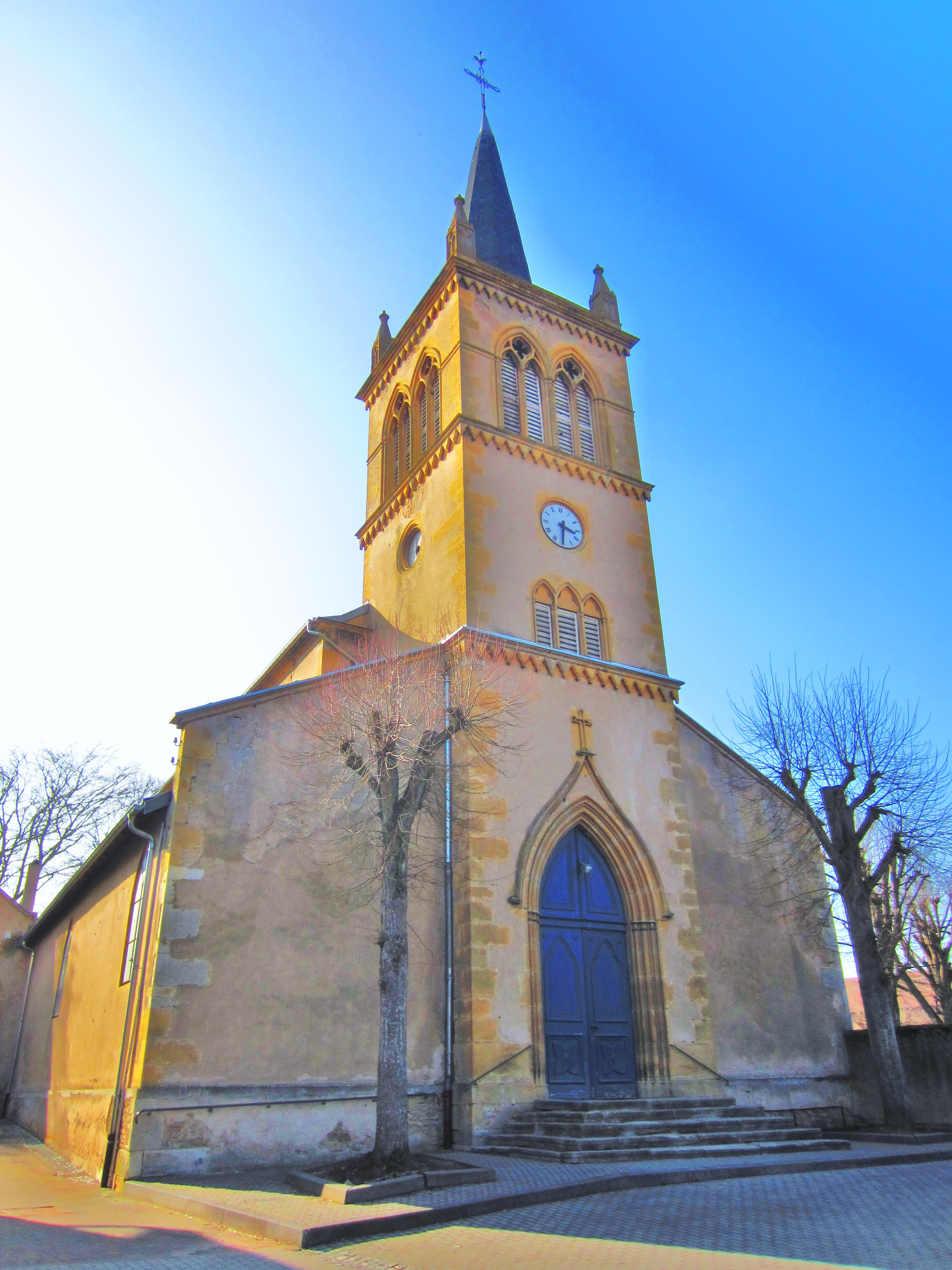 Pange church